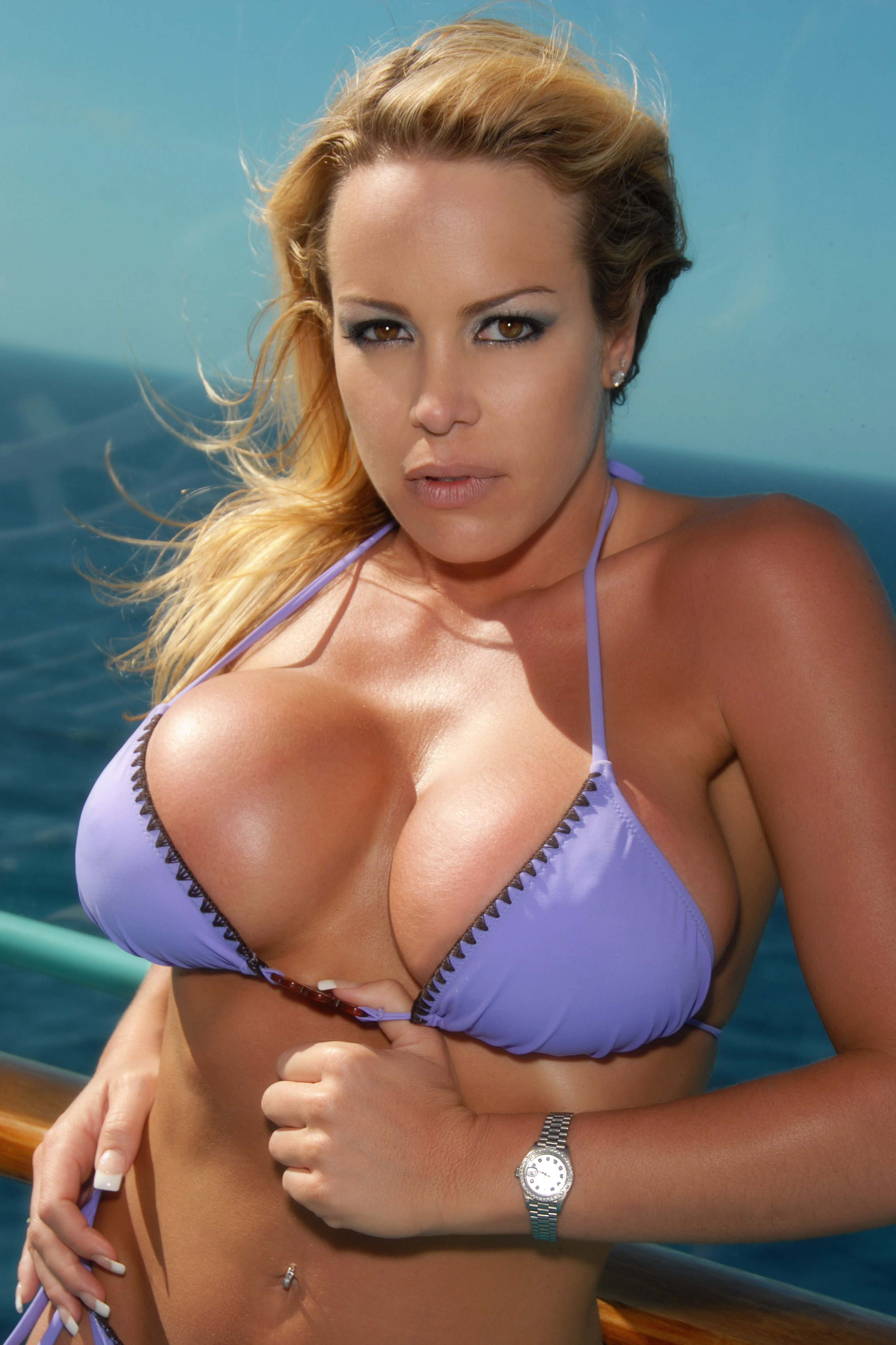 Bobbi Billard aboard the "Kandy Kruise" on 09/16/2007. Photo by Glenn Francis of